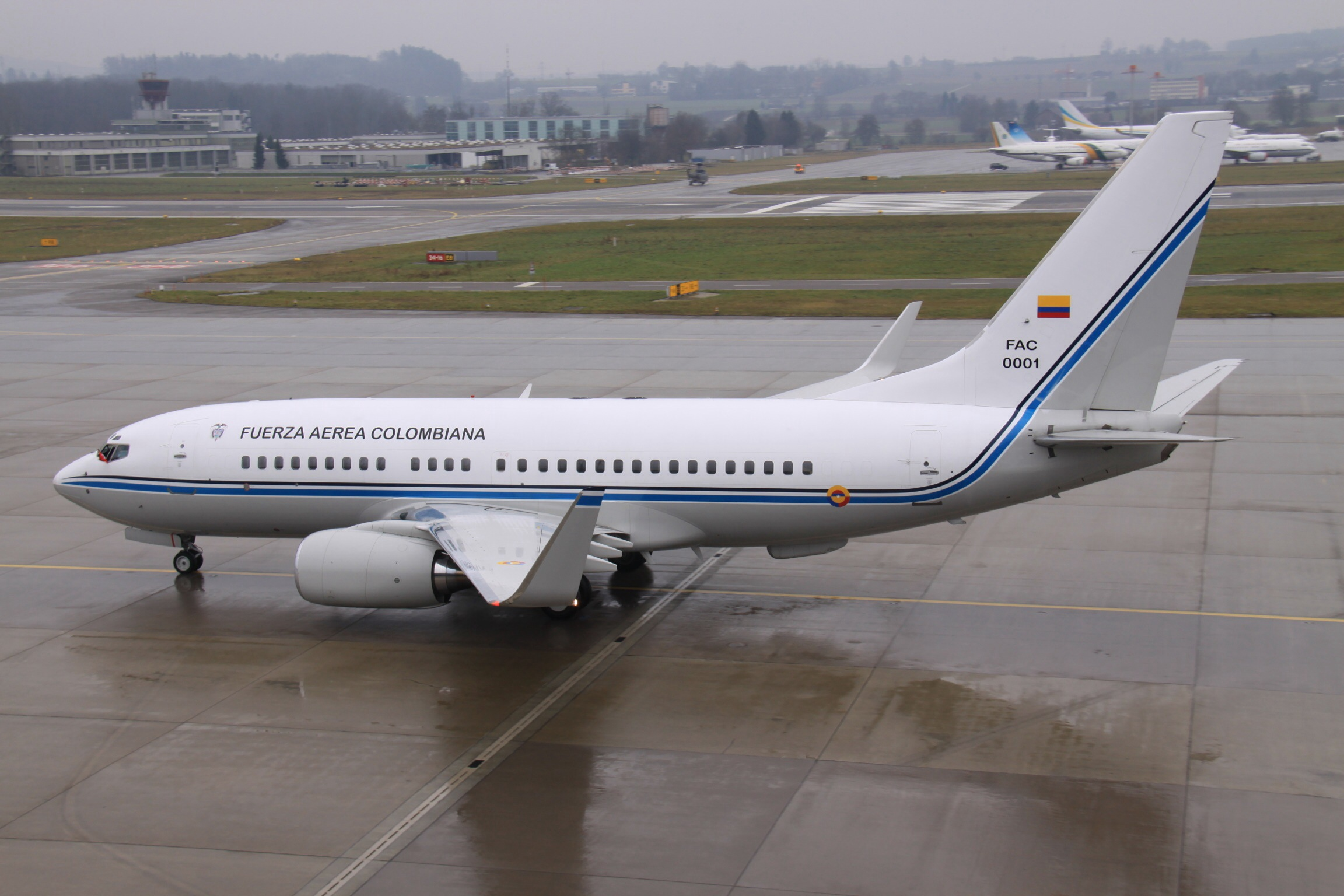 At Zurich Kloten International Airport